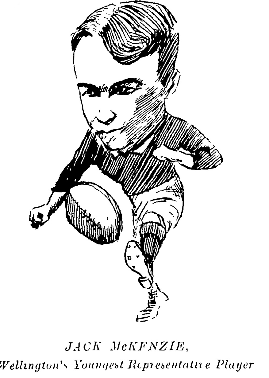 Richard John "Jock" McKenzie (1892–1968) caricature. McKenzie was a New Zealand rugby union player who played for New Zealand's national team, the All Blacks, and Wellington province. He played five matches for the All Blacks, including three against Australia, all in 1910.